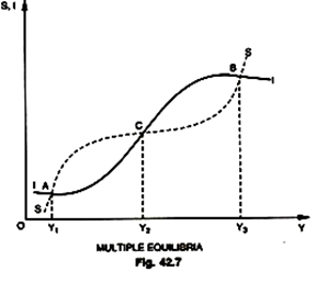 Kaldor business cycle part 2